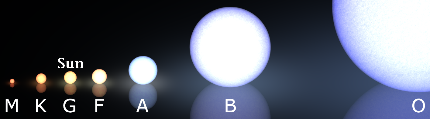 derived from File:Morgan-Keenan spectral classification.png Mnemonic: Oh, Be A Fine Girl, Kiss Me The Sun is a G2V class star. It is a main sequence star that is two tenths of the full range from G0 to K0.